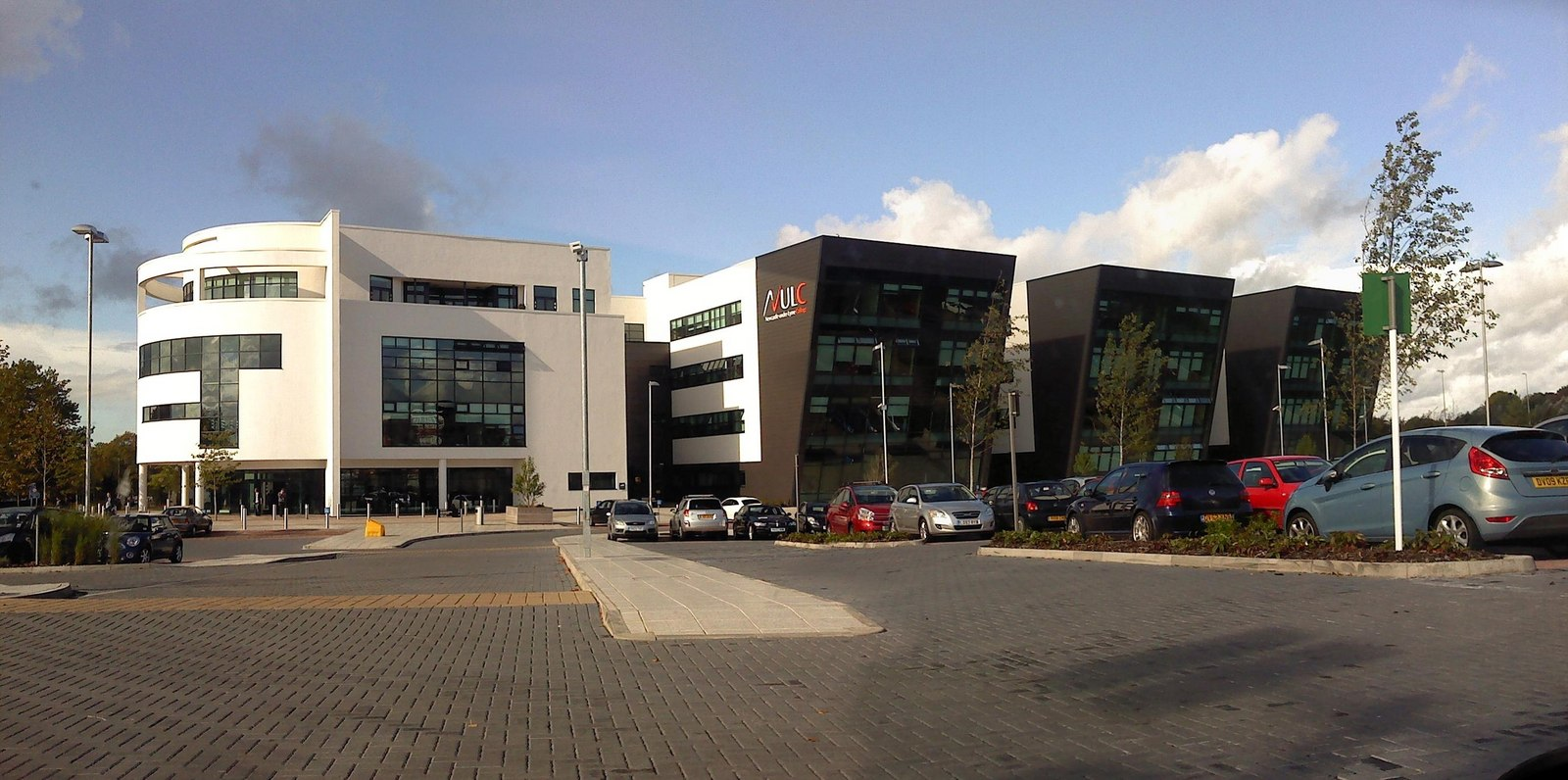 Newcastle Under Lyme College, near to Newcastle-Under-Lyme, Staffordshire, Great Britain. This rather magnificent building is the new Newcastle Under Lyme College, where I am lucky enough to work. It isn't actually on the Ordnance Survey Get-a-map yet - it's still showing the college on its old site on Liverpool Road, where they are currently building a new Sainsbury's supermarket on the land previously occupied by the old college.